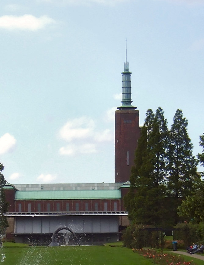 Part of Museum Bijmans Van Beuningen, Rotterdam